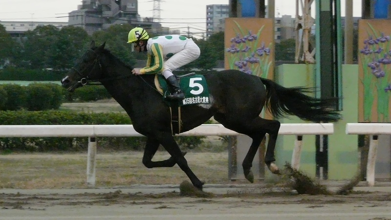 Nihonpiro-ours20120322(1)